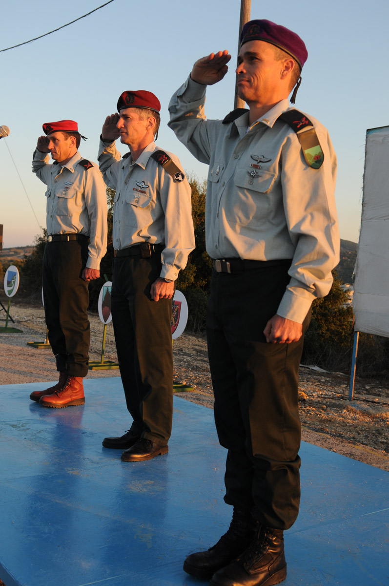 November 7, 2011 Today, Brigadier General Harzi Halevy was appointed commander of the IDF Galilee Division. The Ceremony was attended by the General of the Northern Command, Major General Yair Golan. Brig. Gen Halevy is replacing Brig. Gen. Yoal Strik who held the position for over three years. The Israel Defense Forces Facebook page The Israel Defense Forces blog Follow us on Twitter